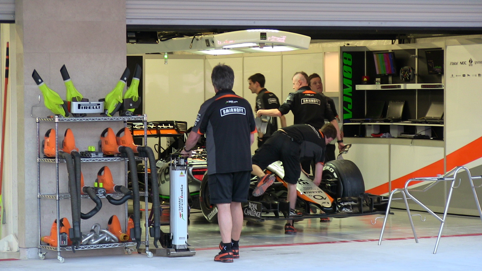 PitWalk Mexican Grand Prix 2015, Autódromo Hermanos Rodríguez. Mexico City, Mexico.